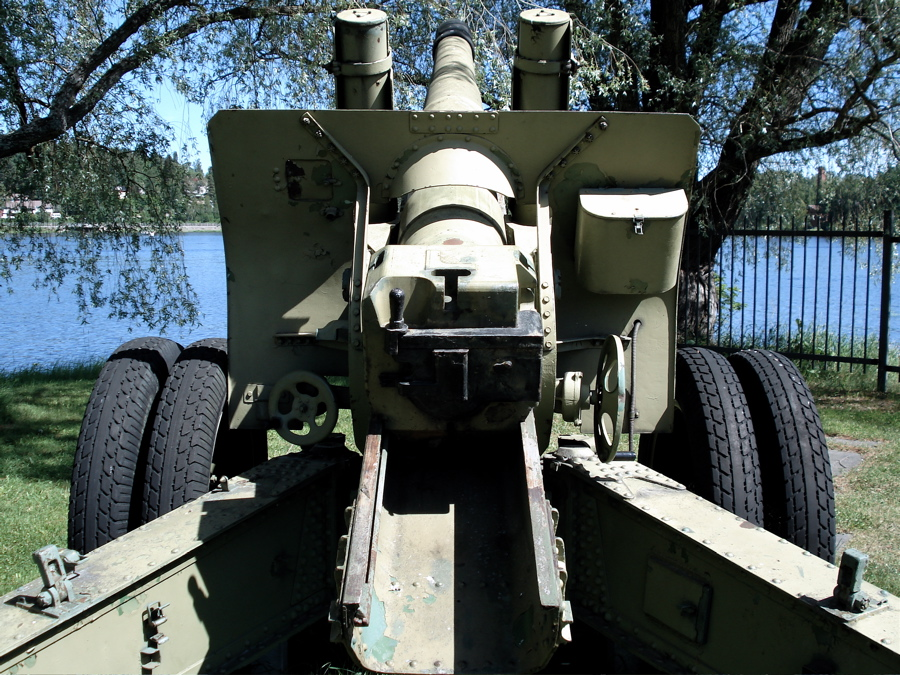 Soviet 152mm mm ML-20 gun-howitzer, displayed in Hämeenlinna Artillery Museum. Photo taken on June 18, 2006. Source: Photo by me, User:Balcer.